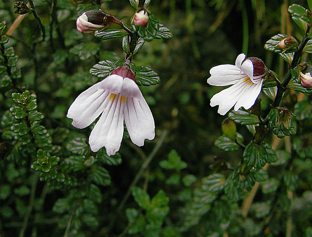 Euphrasia borneensis